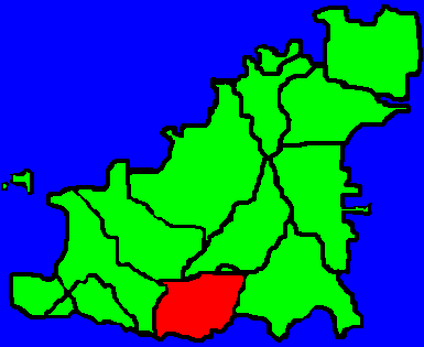 This map shows the position of The Forest in relation to the rest of Guernsey. I drew it myself but it is based on the picture Parishes in Guernsey, which I also drew myself, and the picture